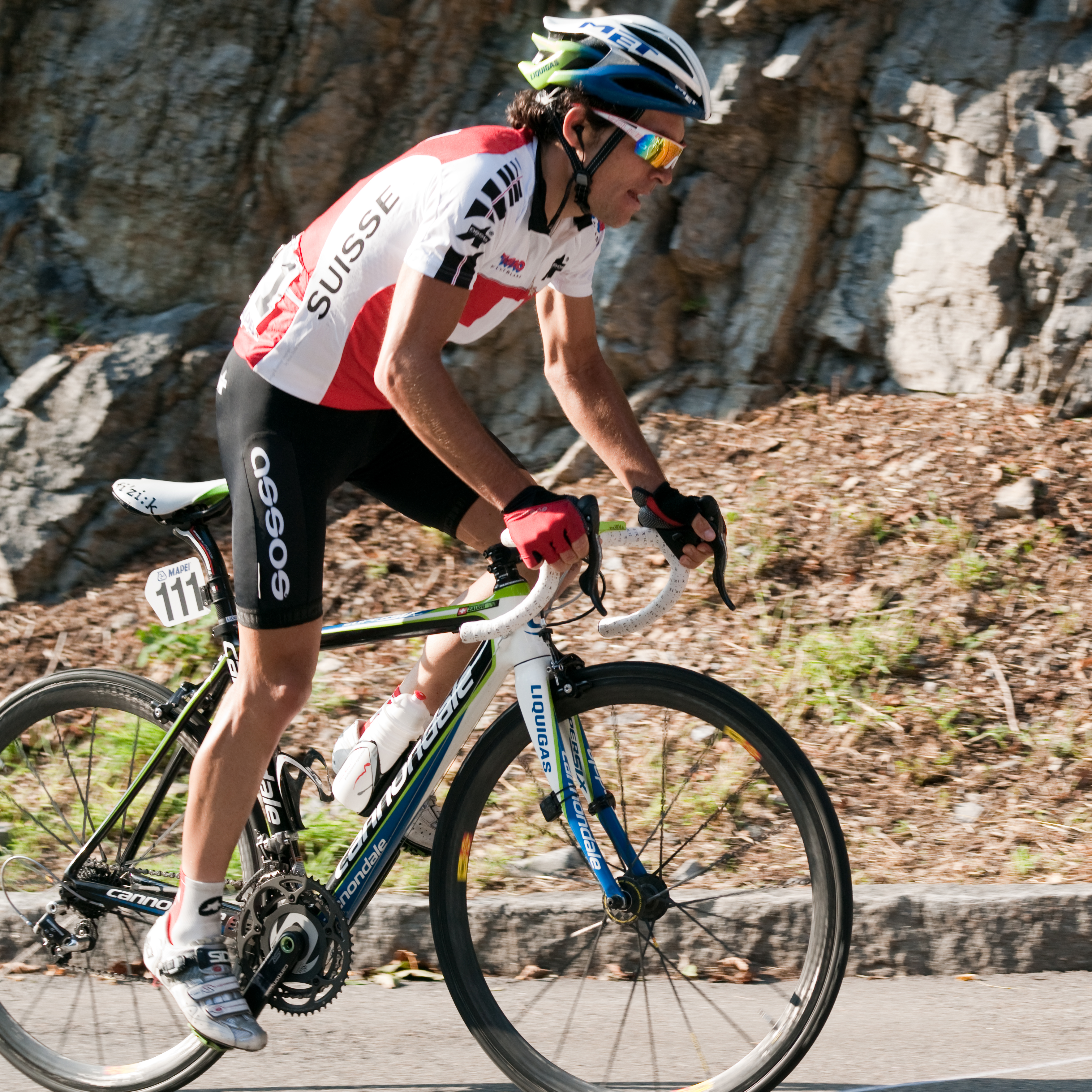 Oliver Zaugg during the 2009 UCI Road World Championships in Mendrisio, Switzerland.